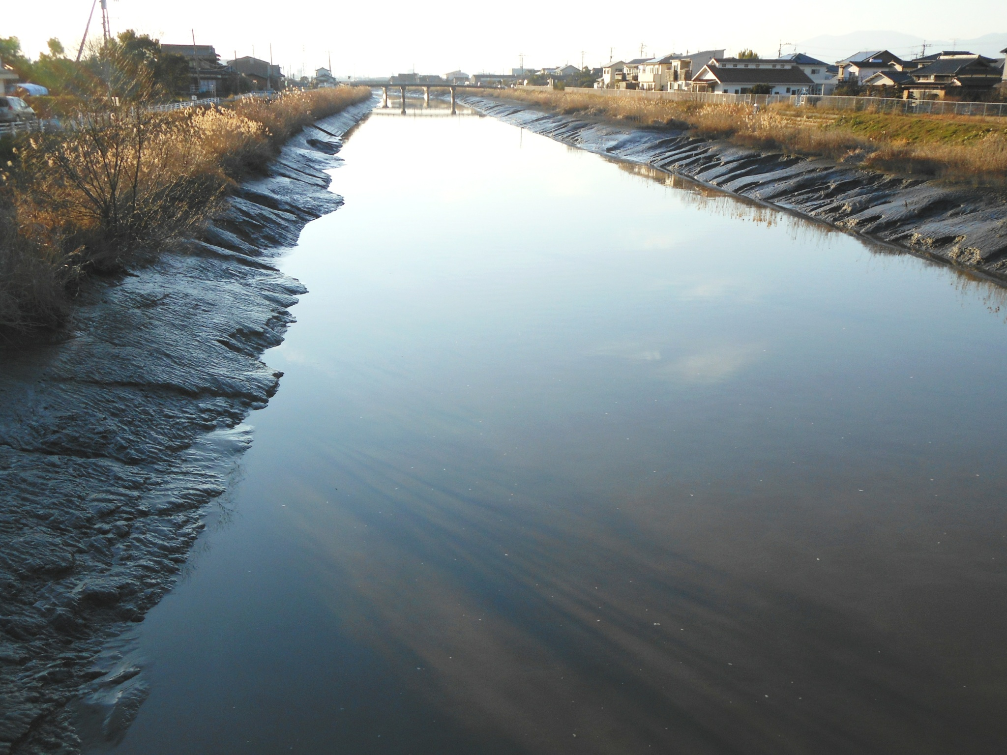 There is much mud deposit at side of the Sagae River near Hasuike Park, Saga City.